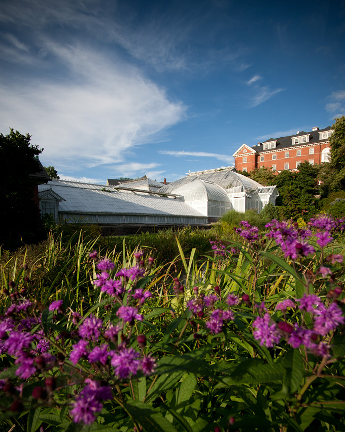 The Botanic Garden of Smith College in Northampton, Mass.